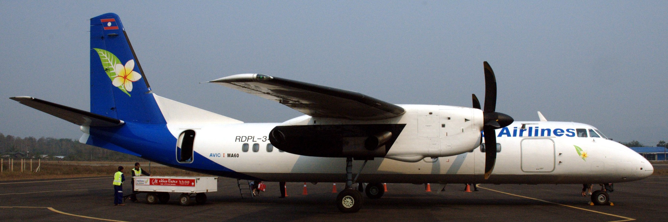 Lao Airlines Xian MA60 (RDPL-34168) at Louangnamtha Airport, Laos